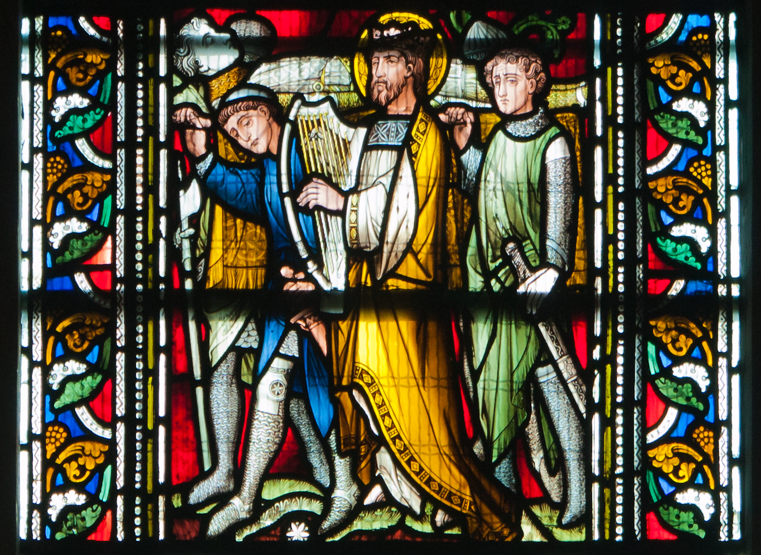 Detail of stained glass window in the third bay of the south aisle, depicting David playing the harp. Cartooned by John Hardman Powell (1827–1895), executed by Hardman & Co.